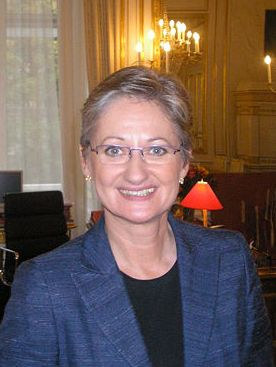 Austrian Federal Minister for Education, the Arts and Culture Claudia Schmied at her office in Vienna, 2007.